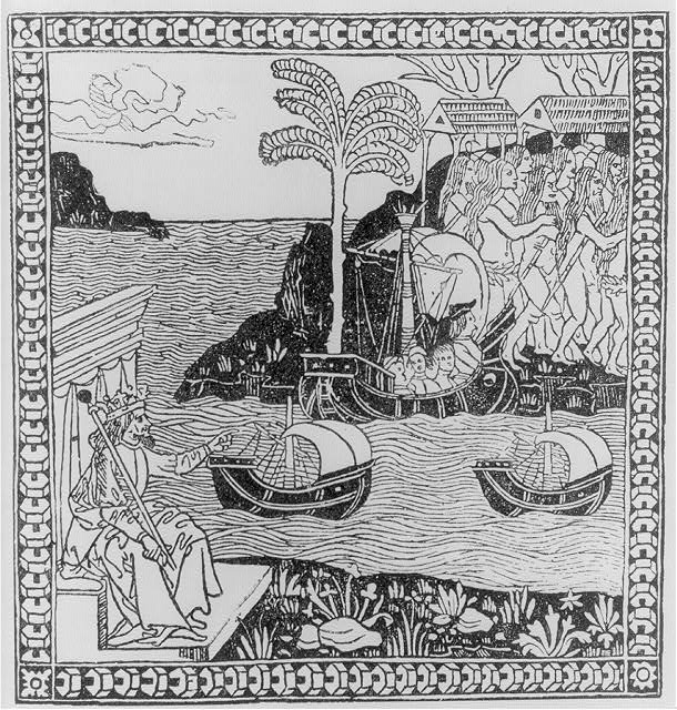 TITLE: [Ferdinand II, King of Spain, pointing across Atlantic to where Columbus is landing with three ships amid large group of Indians] CALL NUMBER: Illus. in Rare Book Div. [Rare Book RR] REPRODUCTION NUMBER: LC-USZ62-43535 (b&w film copy neg.) Rights status not evaluated. For general information see "Copyright and Other Restrictions..." ( MEDIUM: 1 print : woodcut. CREATED/PUBLISHED: 1493, Title page to Lettera delle isole novamente trovata by Giuliano Dati, a translation into verse of a letter from Columbus to Ferdinand of Spain. NOTES: Reference copy filed in P&P Biog. File under Fernando V. This record contains unverified, old data from caption card. Caption card tracings: Shelf. REPOSITORY: Library of Congress Prints and Photographs Division Washington, D.C. 20540 USA DIGITAL ID: (b&w film copy neg.) cph 3a52282 CARD #: 2003677145